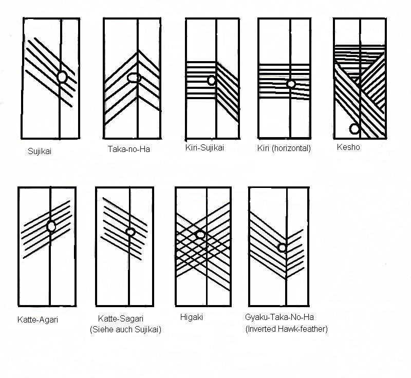 Style of the japanese sword-tang (Nakago), File-marks (Yasurime)